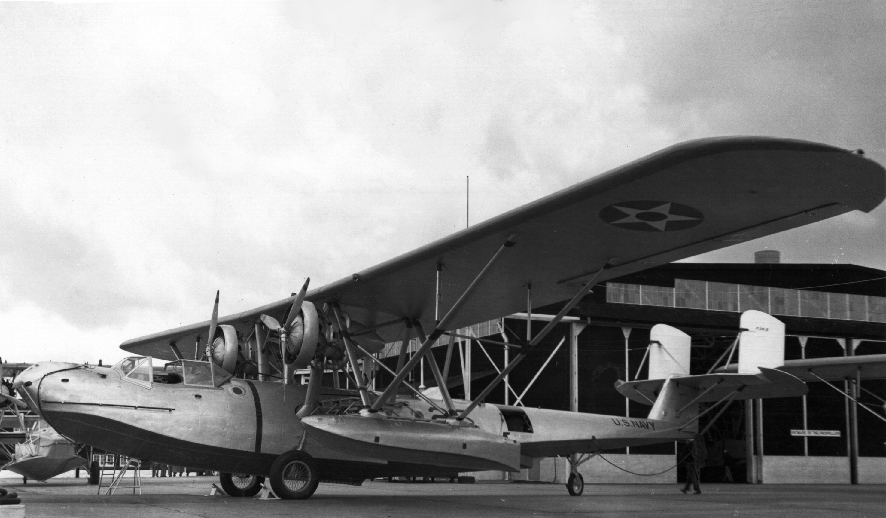 One of six Martin P3M-2 flying boats built for the U.S. Navy. It is pictured in front of a hangar along the sea wall at Naval Air Station Pensacola, Florida (USA). The Martin P3M-2 was a production version of a Consolidated design, powered by two 525 horsepower Pratt & Whitney R-1690-32 engines and featuring an enclosed cockpit. Never meeting with much success operationally, they served primarily in the training role.